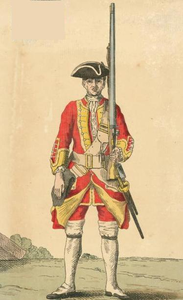 Soldier of the 13th regiment (1742)